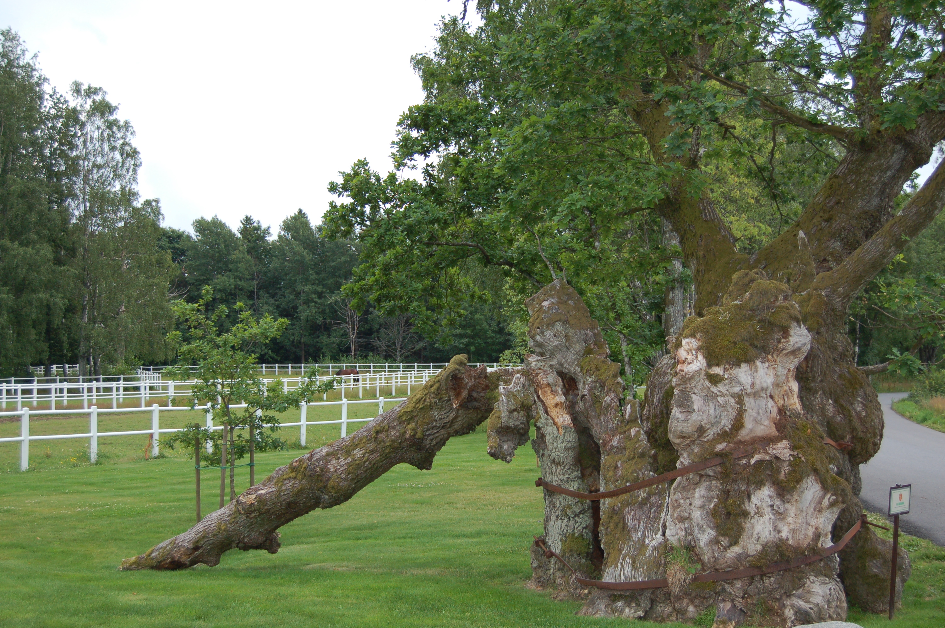 Ullebergeika - very old oak-trea